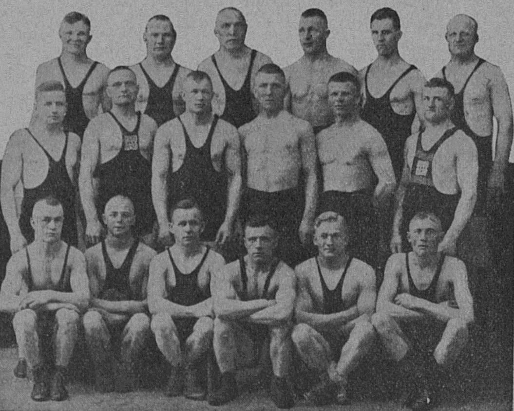 The participants at the wrestling championships in Savonlinna in April 1923. Number two from right in the middle row is the Finnish singer Leo Kauppi (Kauppinen)